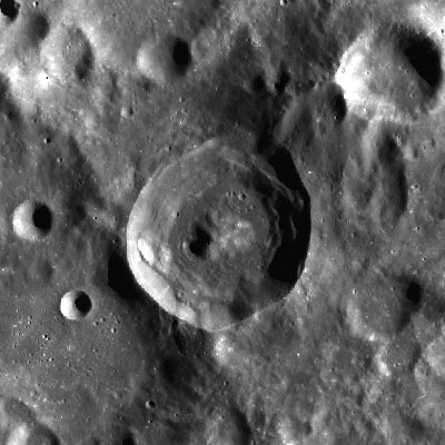 Bok crater